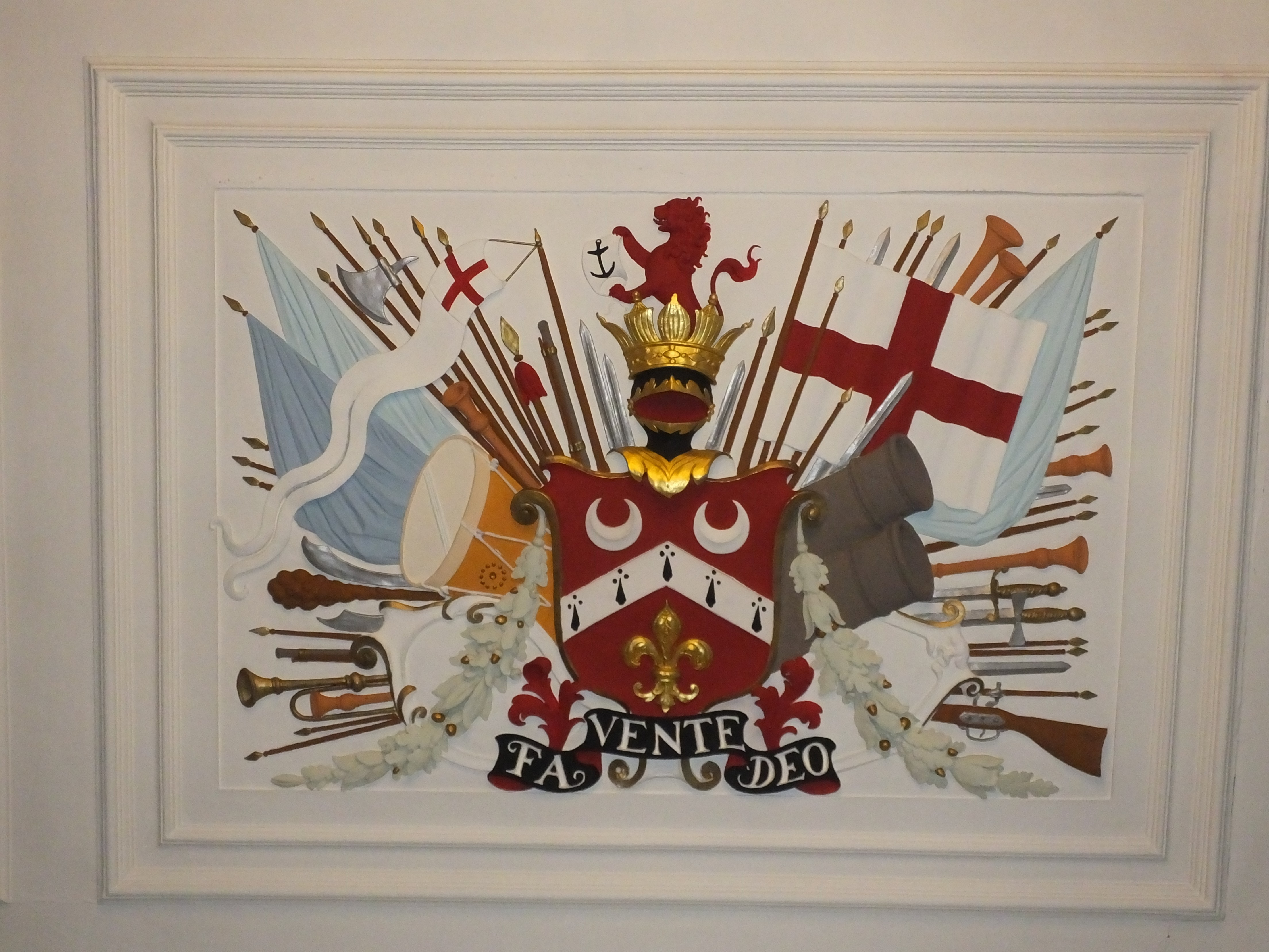 Details of the Rochester Guildhall in Rochester, Kent. Sir Cloudesley Shovells Ceiling Sir Cloudesley Shovells Ceiling Fa Vente Deo